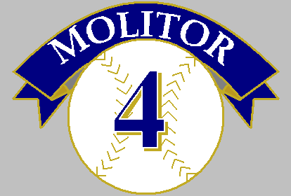 Source: I, Pharos04 made this picture on MSPaint to serve as a retired number on the Milwaukee Brewers page.